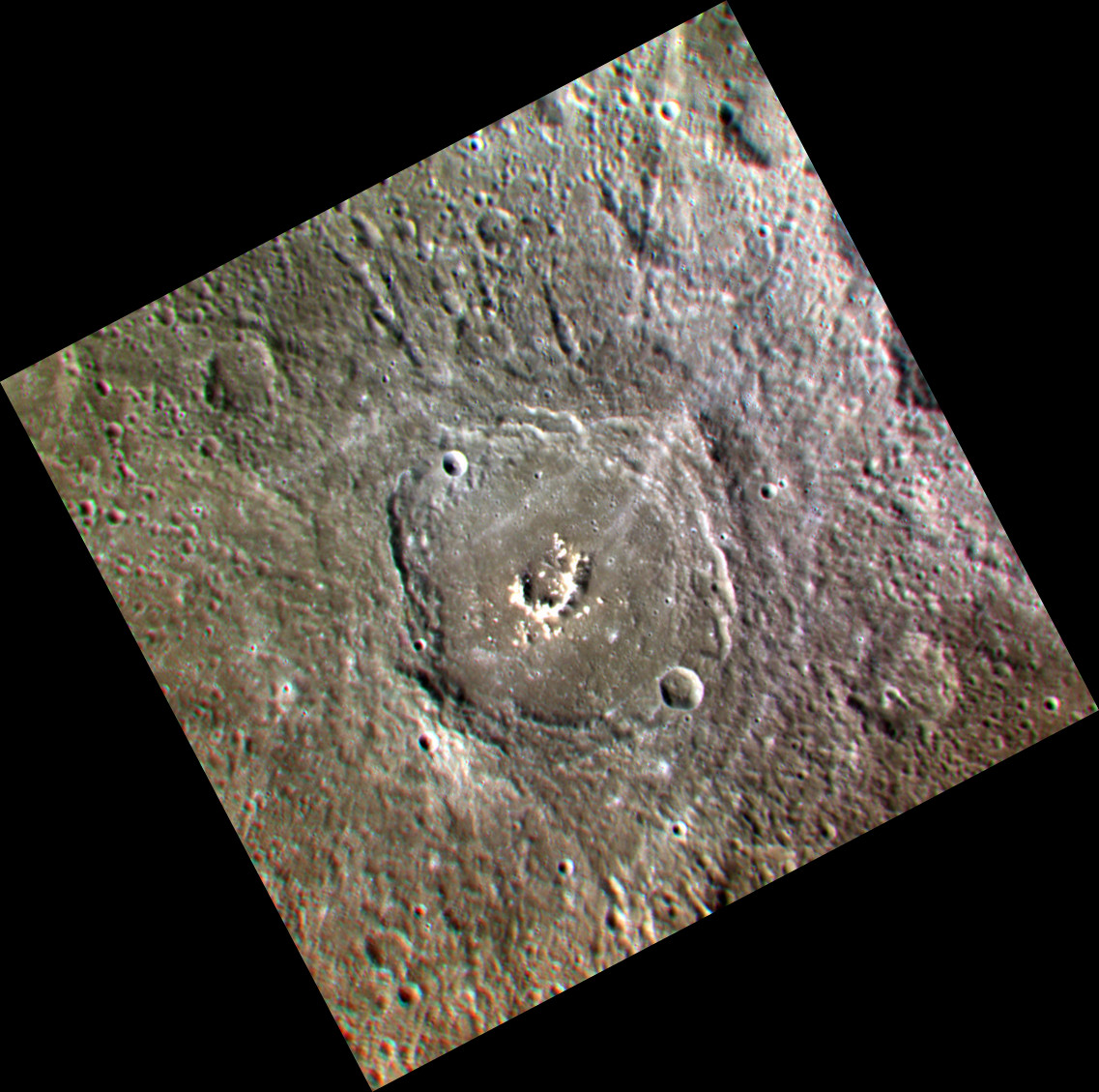 Mickiewicz crater on Mercury. Approximate color representation combining three images acquired by MESSENGER Wide Angle Camera (EW1008598669F, EW1008598673G, EW1008598681I) with I (996.2 nm), G (748.7 nm), and F (433.2 nm) filters. Combined in GIMP software as RGB (Red-Green-Blue), and then rotated so that north is up. Statistics for I image: Emission Angle: 15.5 Incidence Angle: 44.5 Latitude: 23.1 Longitude: 256.8 Phase Angle: 60.0